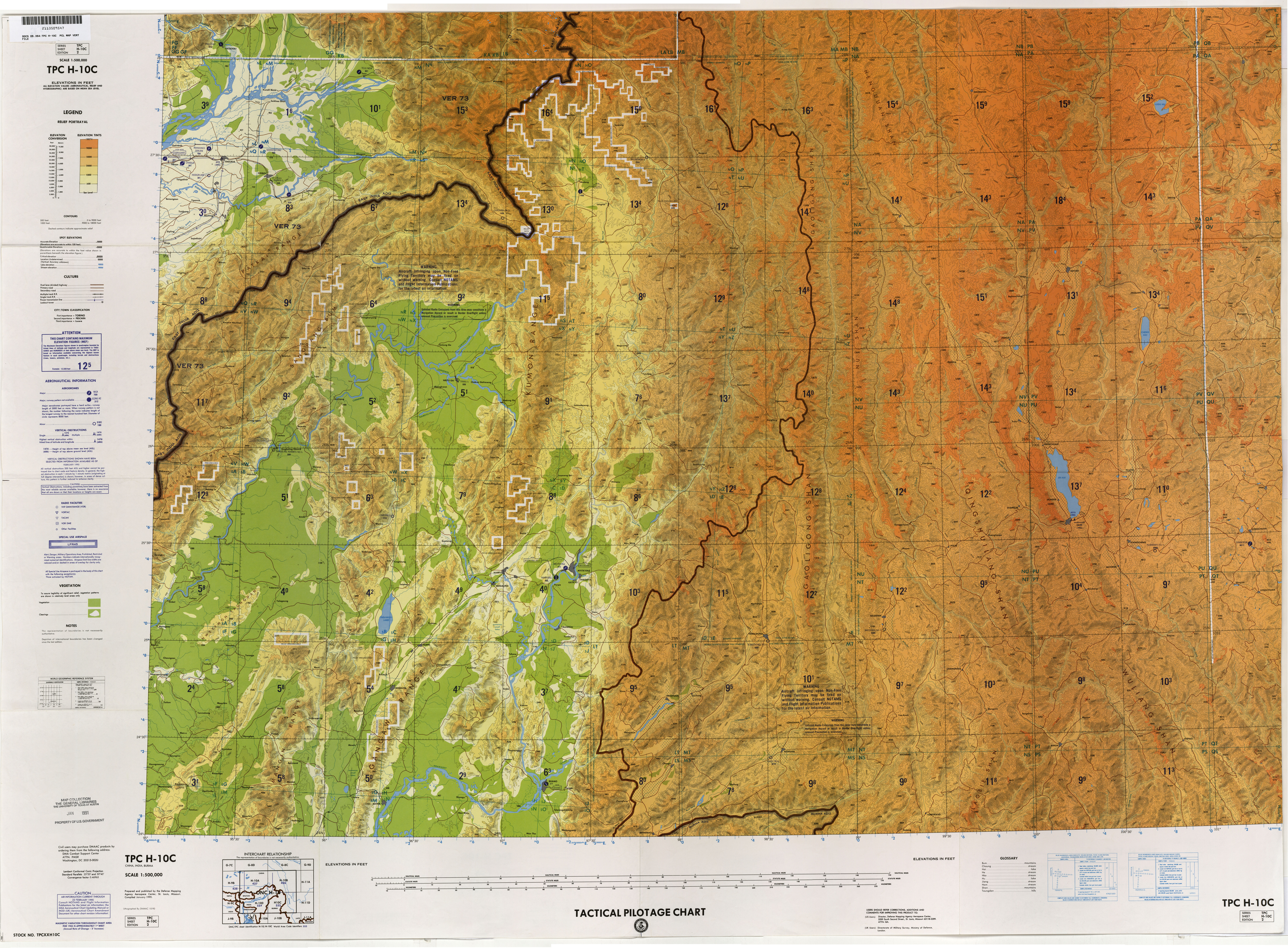 Tactical Pilotage Chart Series - World 1:500,000 Scale